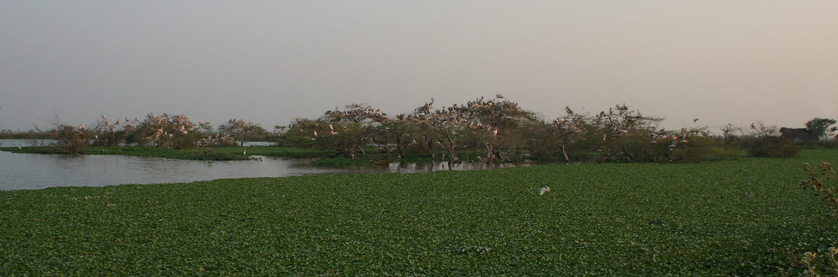 Spot-billed Pelican Pelecanus philippensis, Black-headed Ibis Threskiornis melanocephalus & Painted Stork Mycteria leucocephala at Garapadu, Andhra Pradesh, India.